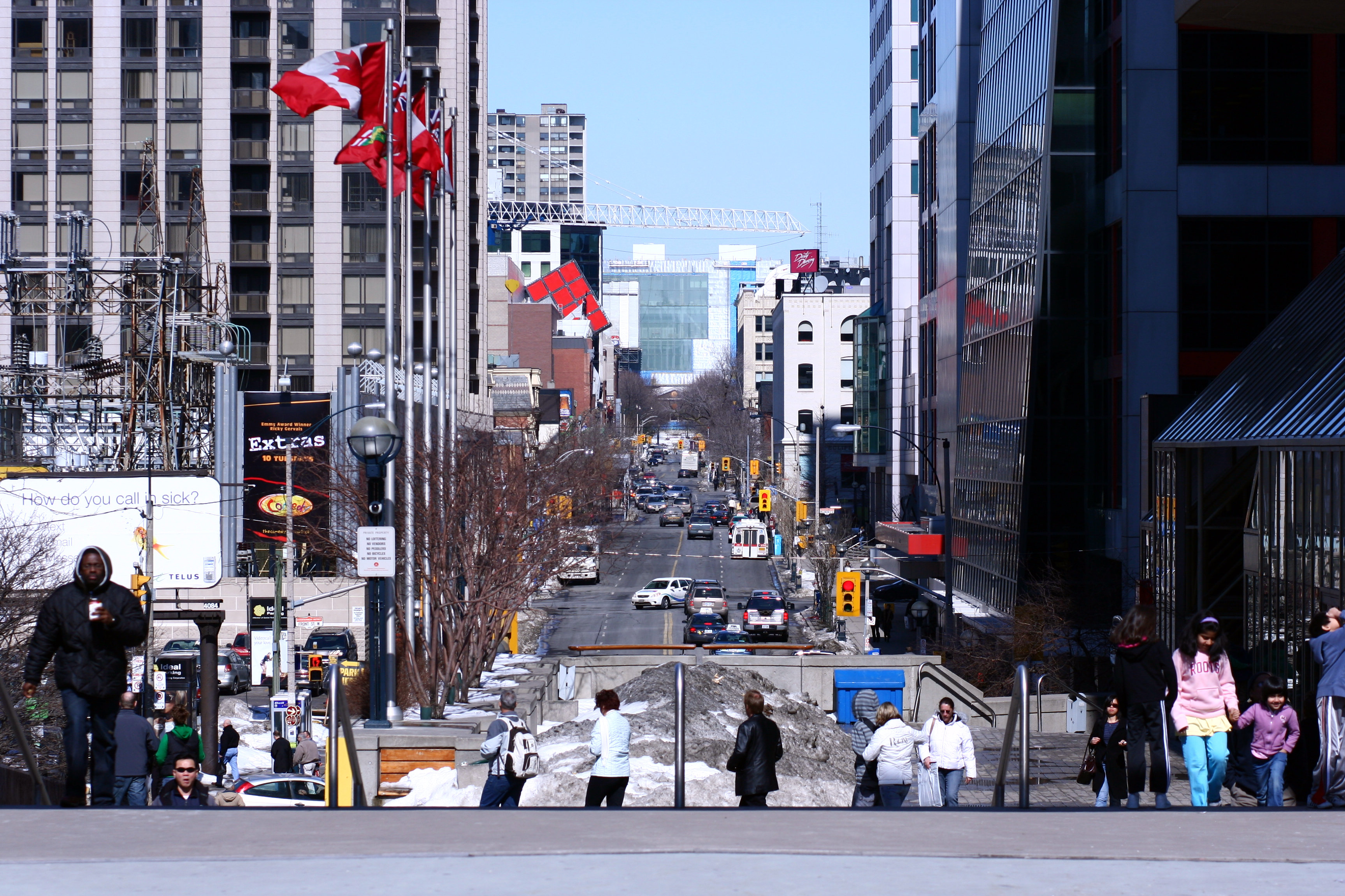 Looking northward up John Street, from its southern terminus at Front Street. Toronto, Canada.